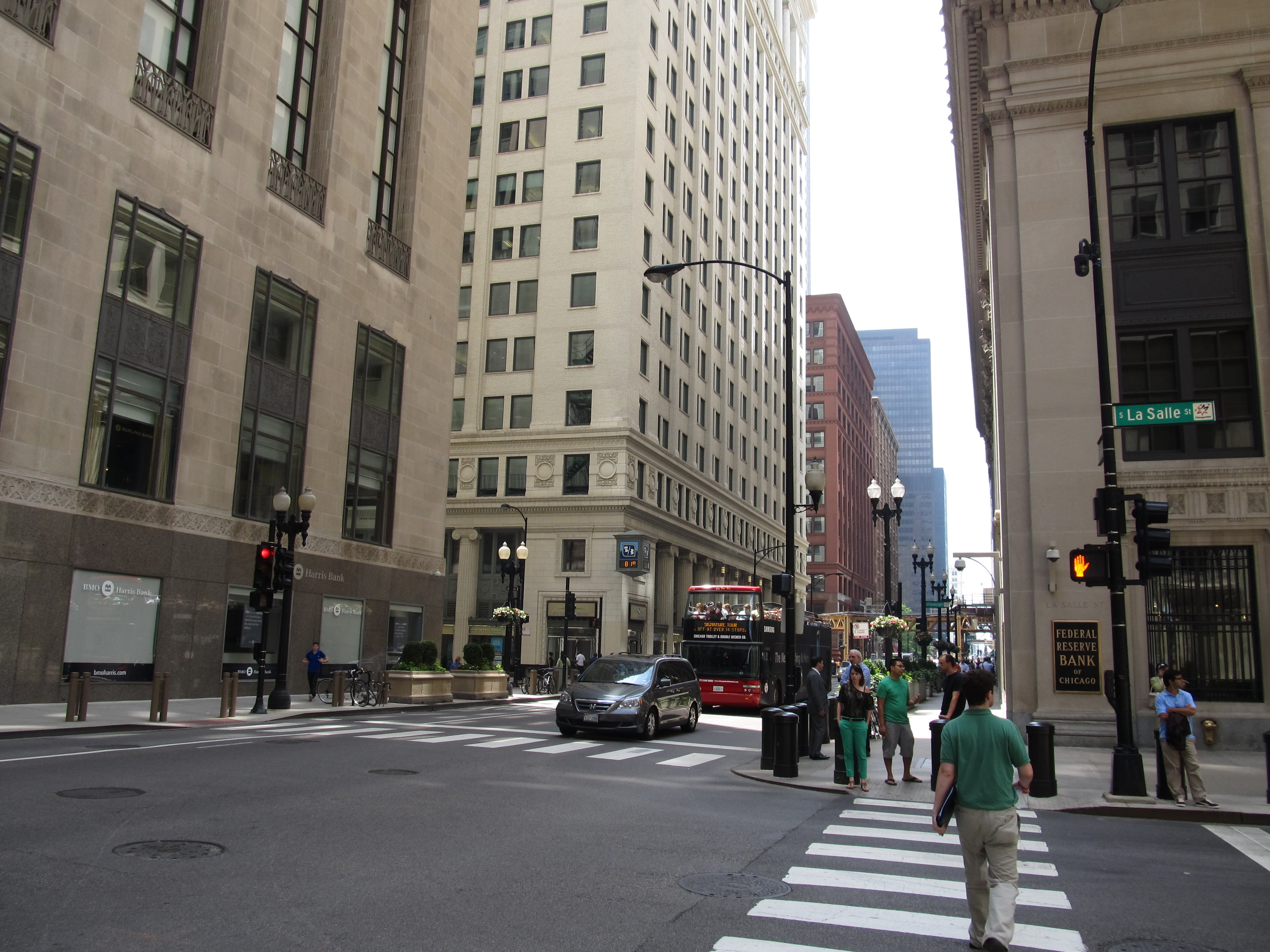 The Loop or Chicago Loop is one of 77 officially designated community areas located in the City of Chicago, Illinois, United States. It is the historic commercial center of Downtown Chicago. It is the seat of government for Chicago and Cook County, as well as the historic theater and shopping district (including State Street). As established in social research done by the University of Chicago in the 1920s, the Loop is a defined community area of Chicago. Chicago's central business district community area is bounded on the west and north by the Chicago River, on the east by Lake Michigan, and on the south by Roosevelt Road, although the commercial core has expanded into adjacent community areas. The community area includes Grant Park and one of the largest art museums in the United States, the Art Institute of Chicago. Other major cultural institutions that call this area home include the Chicago Symphony Orchestra, the Lyric Opera of Chicago, the Goodman Theatre, the Joffrey Ballet, the central public Harold Washington Library, and the Chicago Cultural Center. In what is now the Loop Community Area, on the southern banks of the Chicago River, near today's Michigan Avenue Bridge, the U.S. Army erected Fort Dearborn in 1803. It was the first settlement in the area sponsored by the United States.